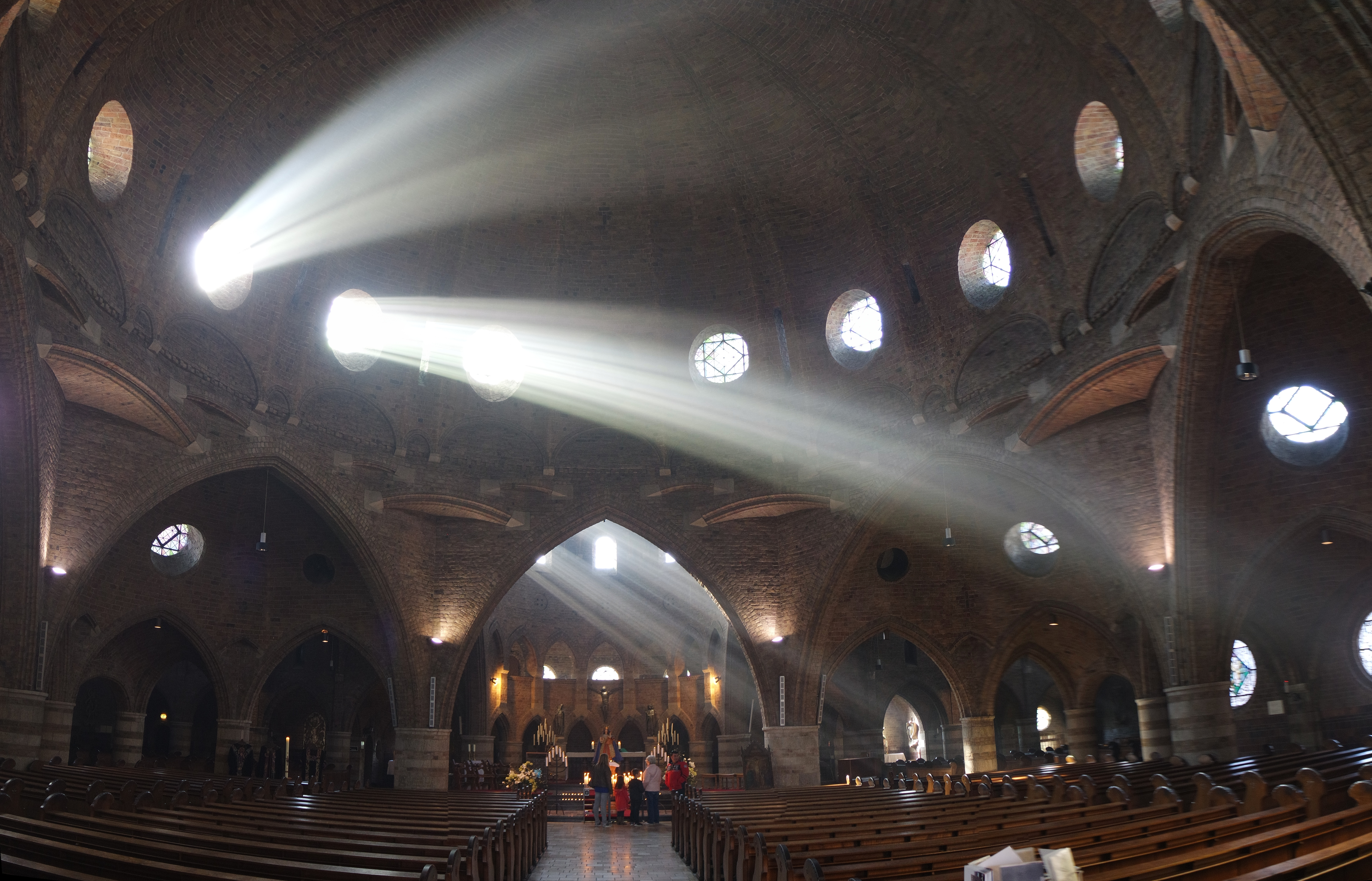 The inside of the big dome of the Jacobuskerk (James church) in Enschede the Netherlands. The domes have relatively small, round windows. With using incense and bright sun light a remarkable light play can be seen.